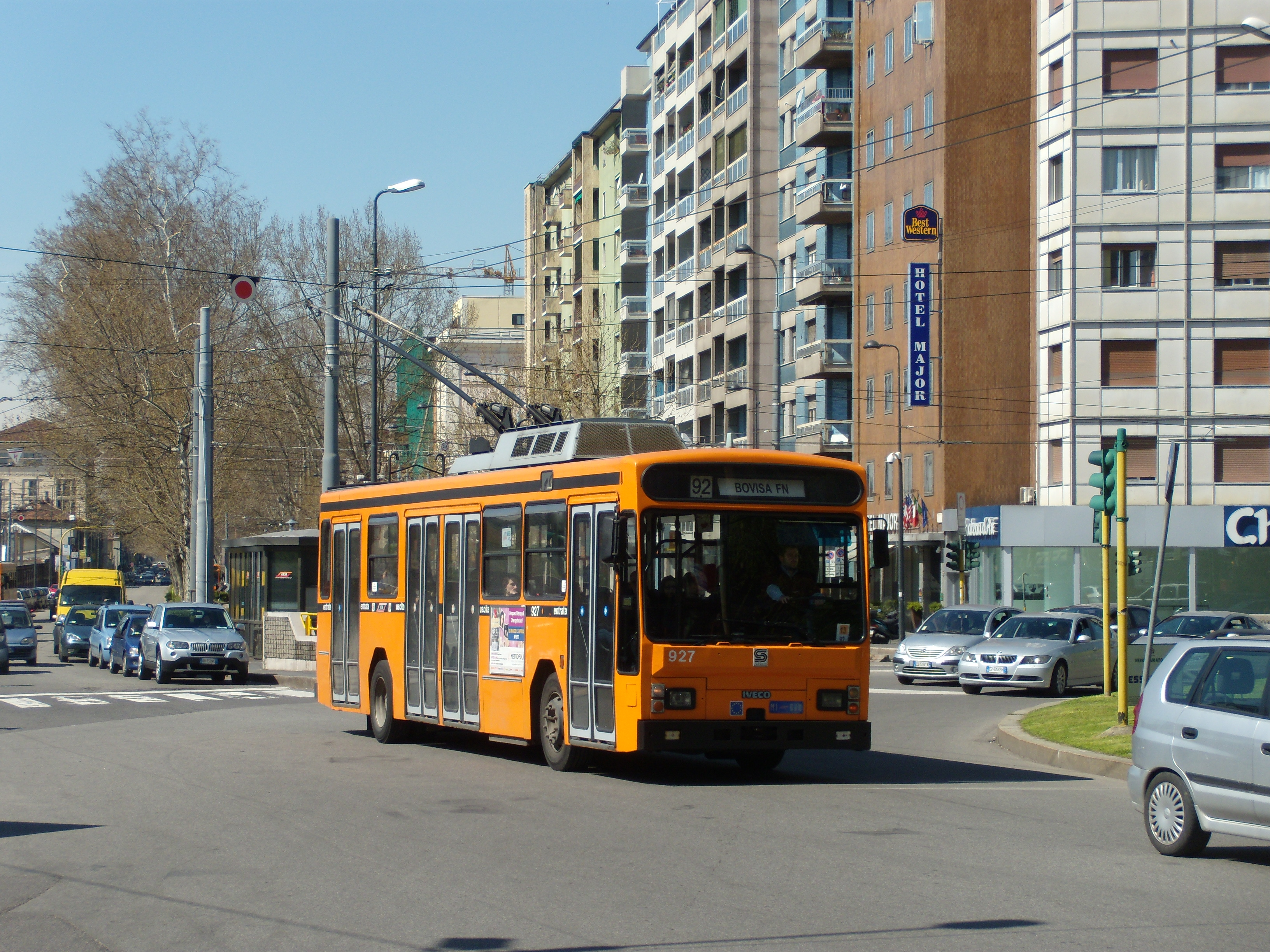 Milano trolleybus 927 at Piazzale Lodi.